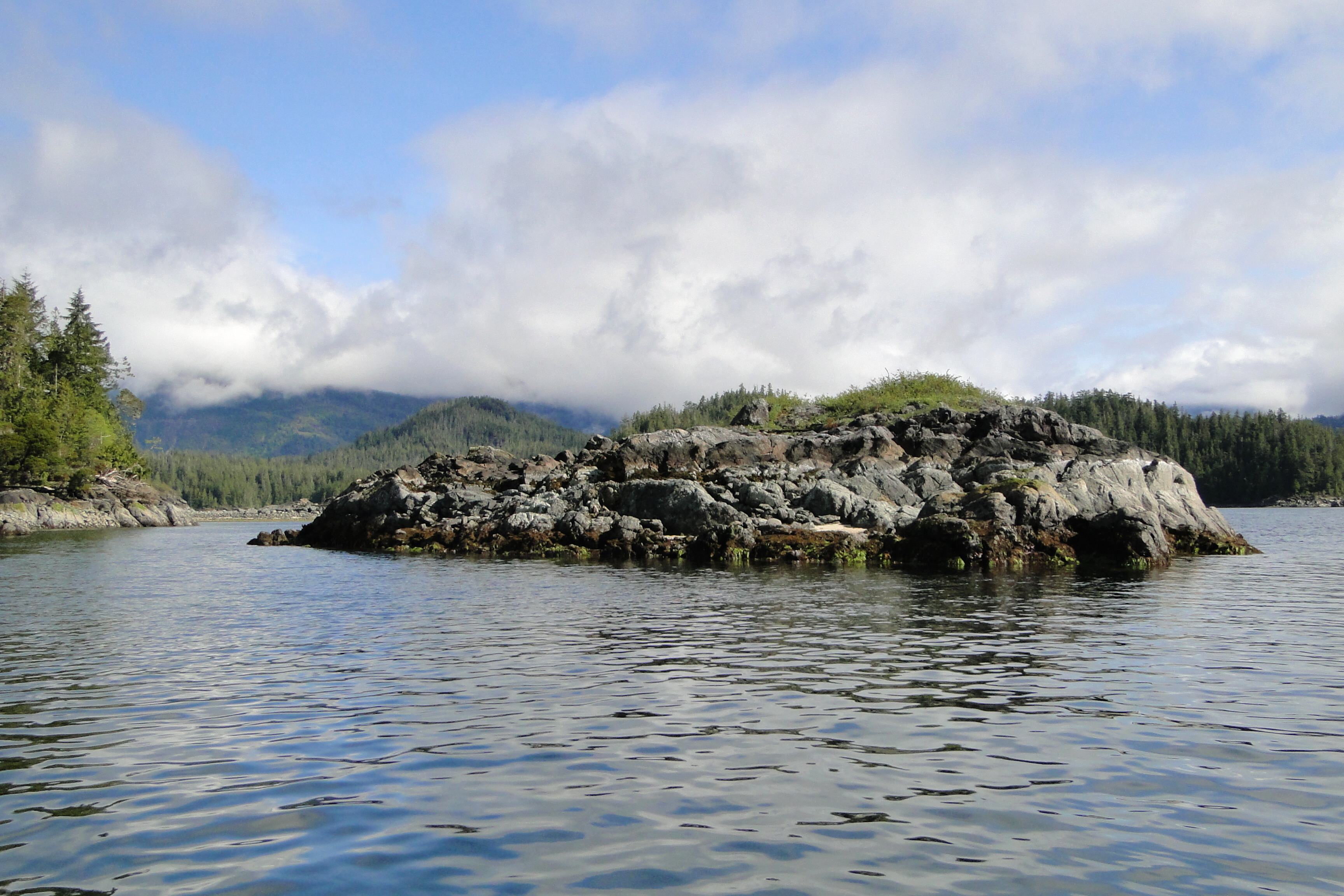 Clayoquot Sound - Near Tofino - Vancouver Island BC - Canada - 10